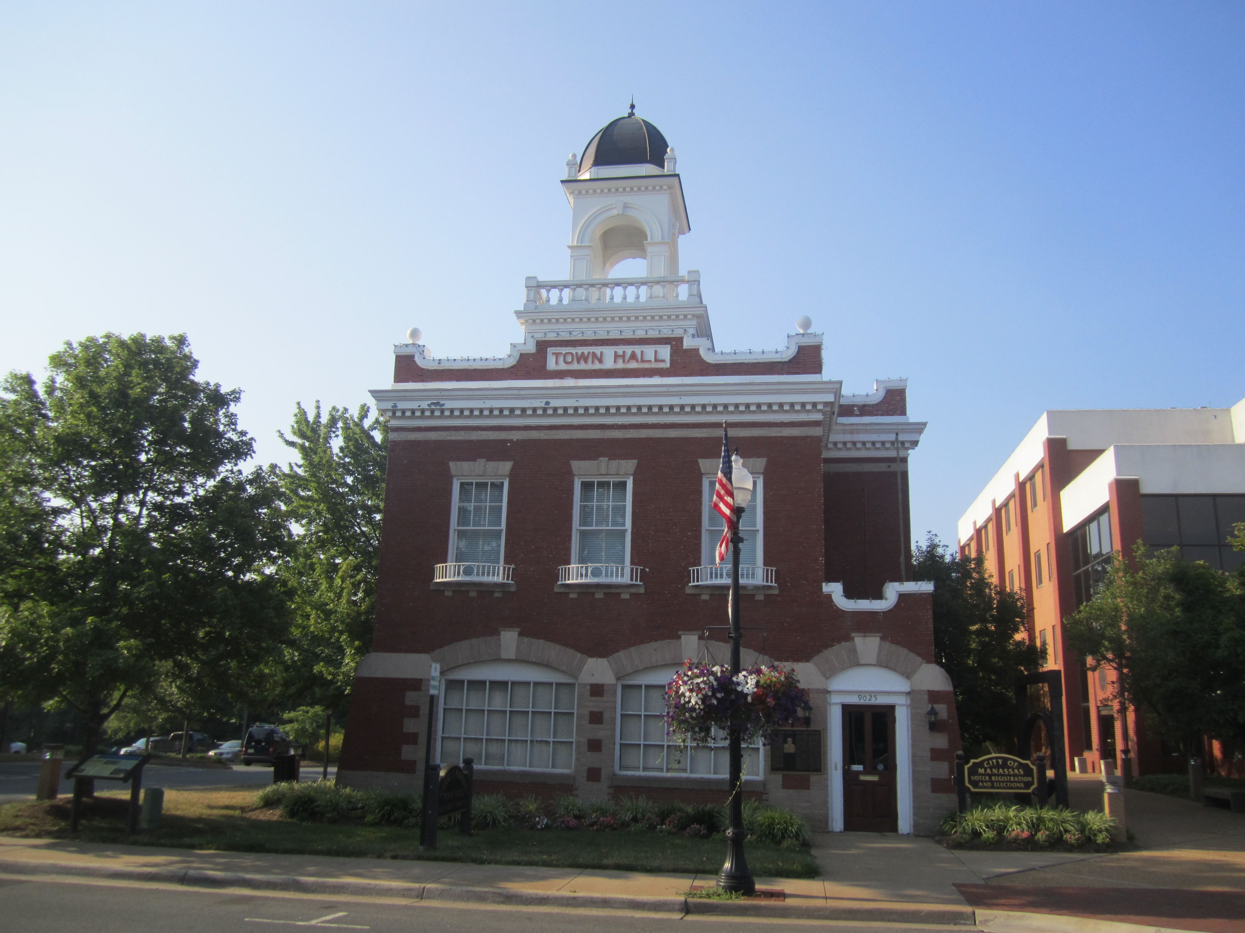 I took photo of Manassas, VA, Town Hall with Canon camera.